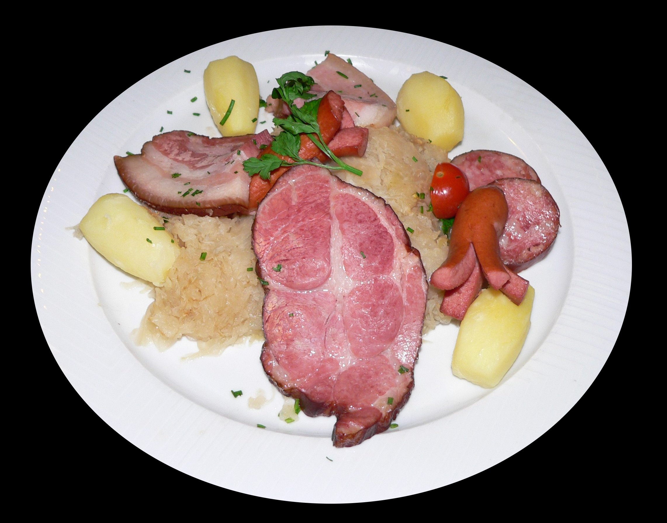 Choucroute garnie, a variety of Sauerkraut